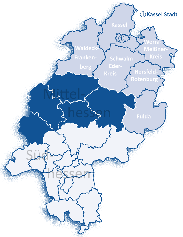 The map shows the districts in the Regierungsbezirk Kassel